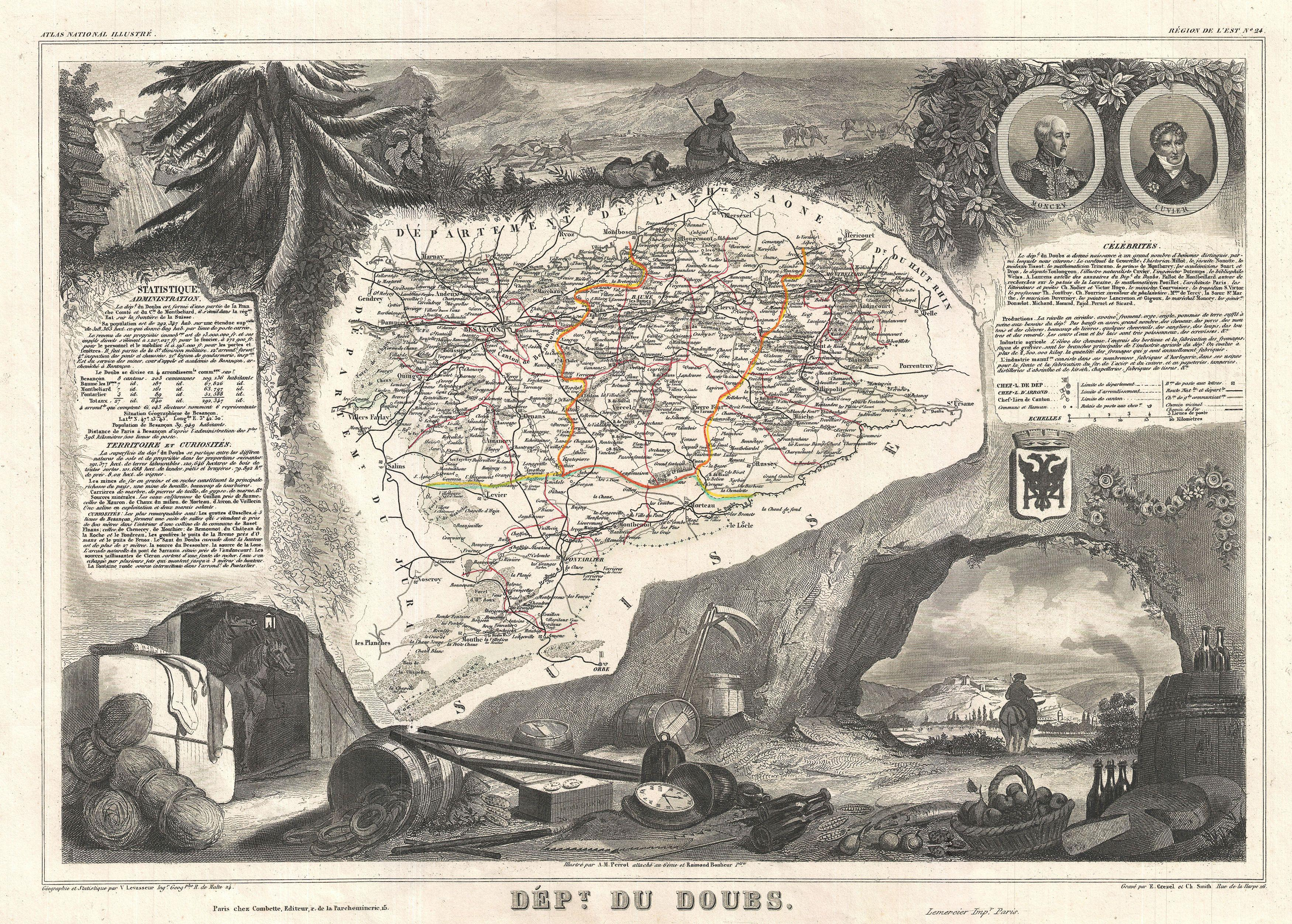 This is a fascinating 1852 map of the French department of Doubs, France. The whole is surrounded by elaborate decorative engravings designed to illustrate both the natural beauty and trade richness of the land. There is a short textual history of the regions depicted on both the left and right sides of the map. Published by V. Levasseur in the 1852 edition of his Atlas National de la France Illustree.